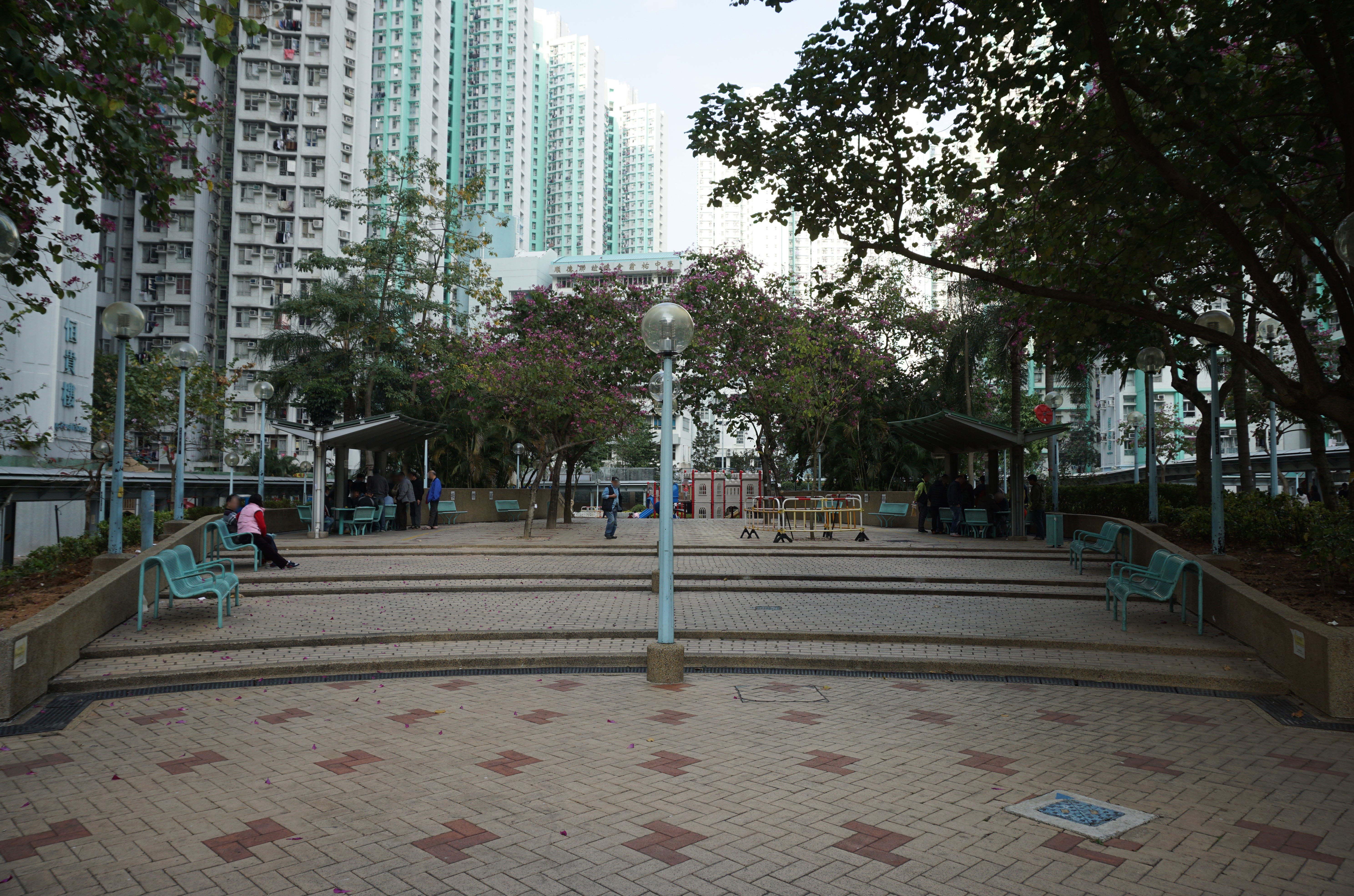 Tin Heng Estate in Tin Shui Wai, Hong Kong.